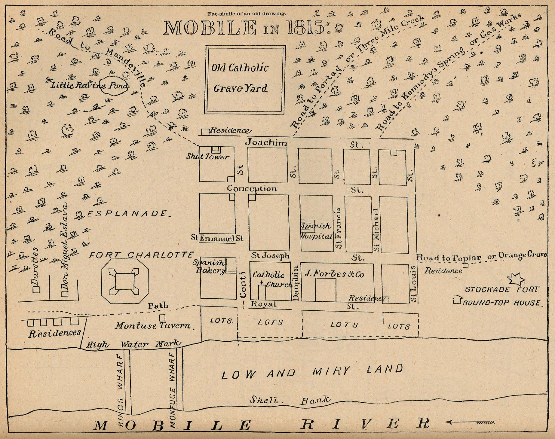 Mobile in 1815 From Report on the Social Statistics of Cities, Compiled by George E. Waring, Jr., United States. Census Office, Part II, 1886. Found at Texas University Library 2007-05-08